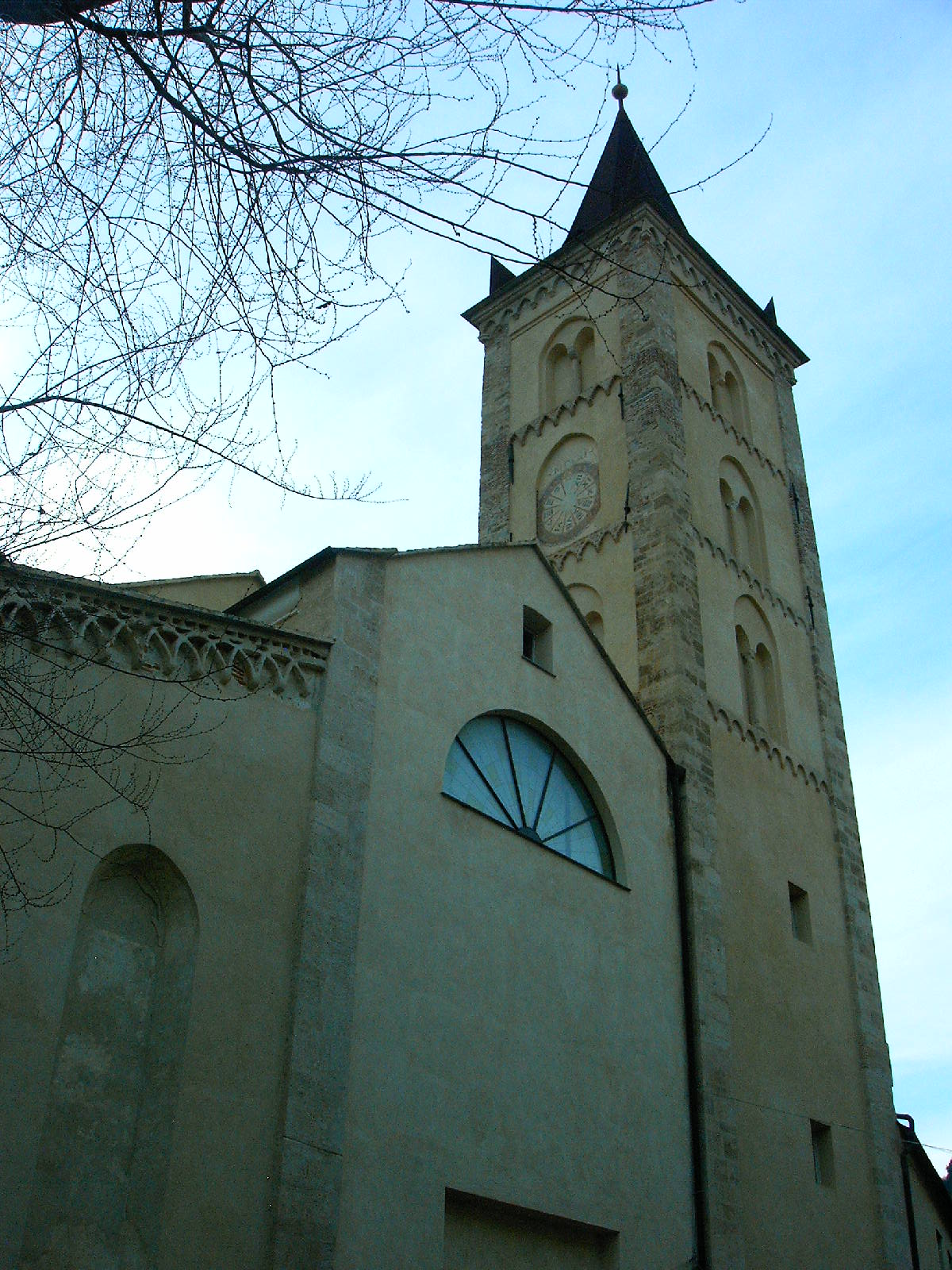 Former church of St.Caterina, Finalborgo